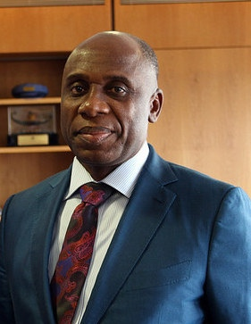 Mr. Chibuike Amaechi, former Governor of Rivers State, during a meeting with IMO Secretary General Kitack Lim at the IMO Headquarters, London (5 July 2016).